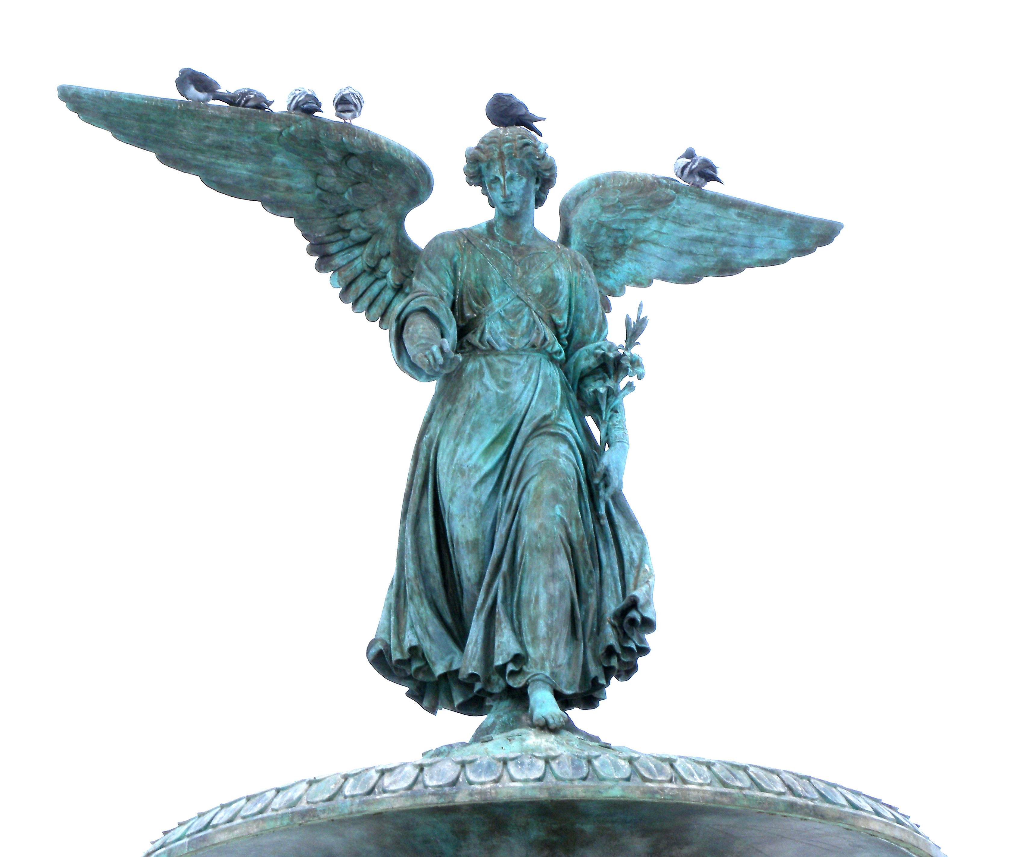 Looking north and up at Bethesda angel on a Not so nice afternoon with snow providing fill light. See File:Bethesda angel cloudy orig jeh.JPG for unretouched version.